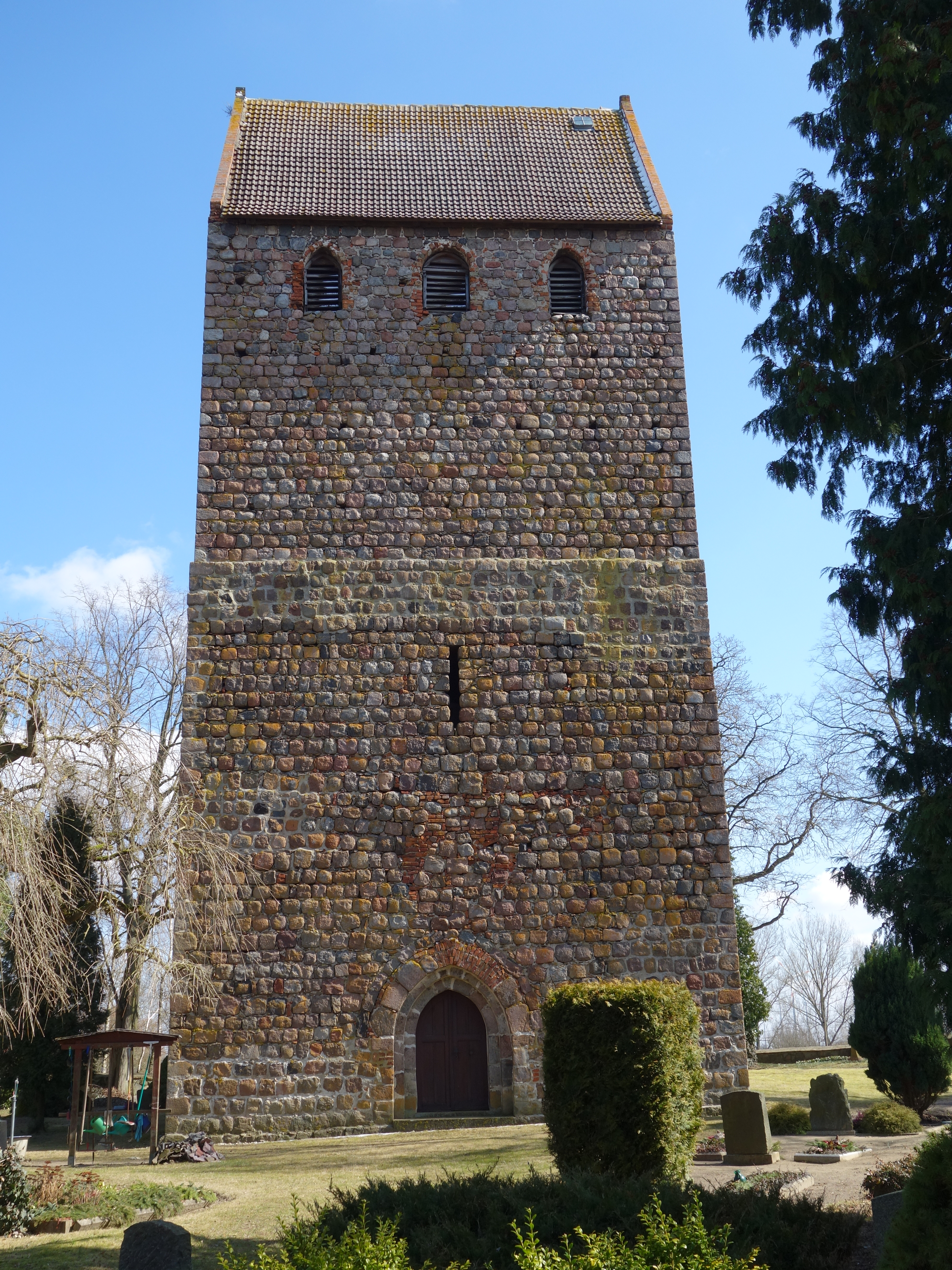 Tower of the church in Falkenwalde , Uckerfelde municipality , Uckermark district, Brandenburg state, Germany